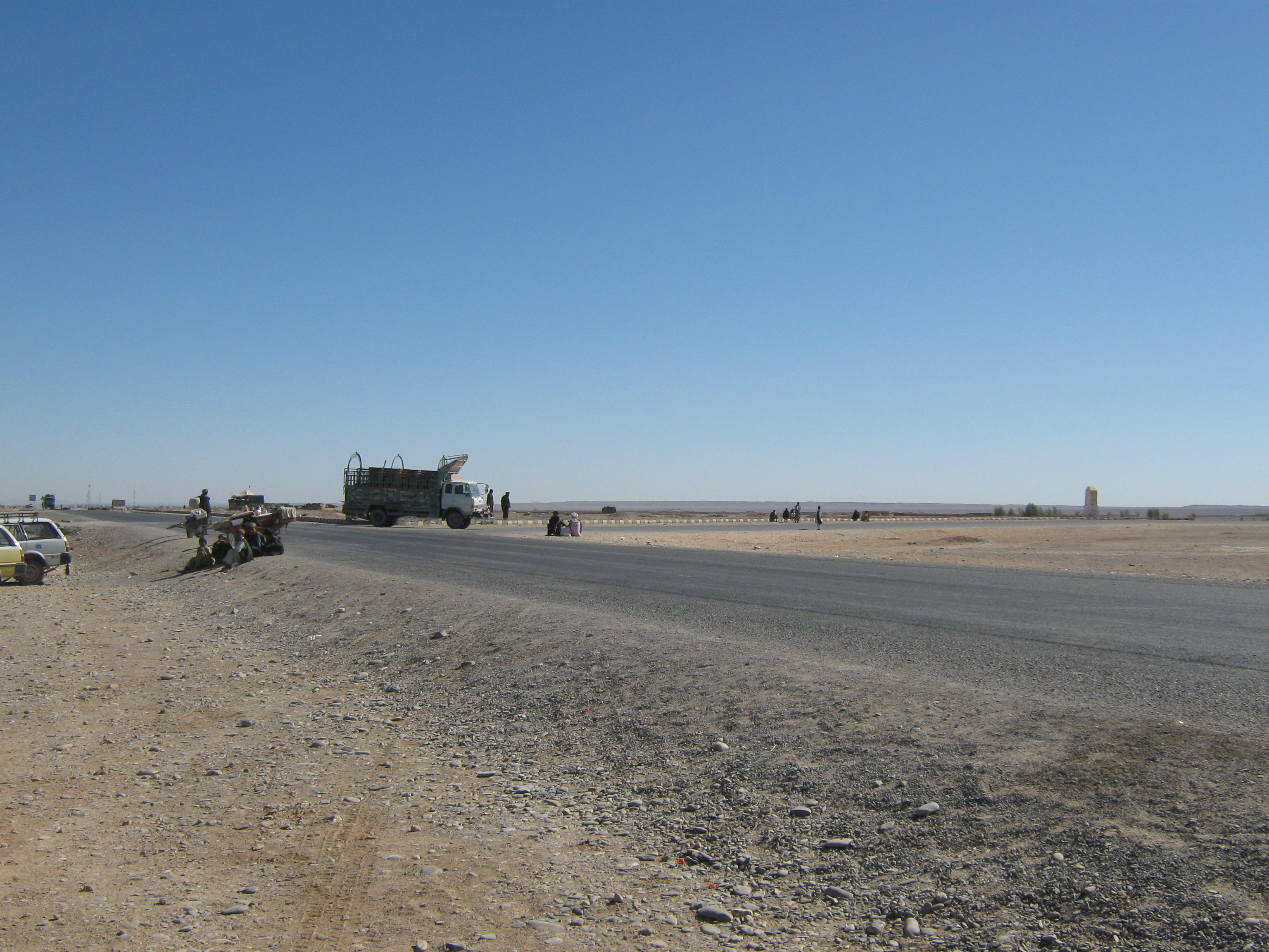 Intersection of Highway 1 and Route 606 in Delaram, Afghanistan. Road running diagonally in front of photograph is Highway 1 and the road connecting to it is the northern terminus of Route 606. Jingle truck is turning onto Route 606 towards Zaranj.